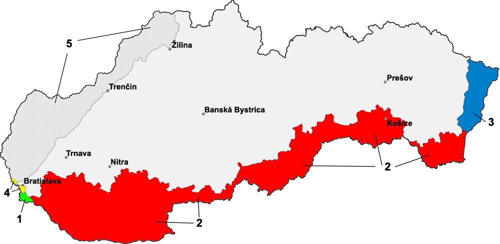 Map of Slovakia with border-changes in the south and east against Hungary & Germany (1939-1945) 1 — Bratislava bridgehead, part of Hungary until 15 October 1947 2 — Southern Slovakia, from 2 November 1938 until 1945 to Hungary, due to the First Vienna Award 3 — Strip of land in eastern Slovakia around the cities of Stakčín & Sobrance, part of Hungary from 4 April 1939 (following the Slovak–Hungarian War) until 1945 4 — Devín and Petržalka (now parts of the city of Bratislava), from 1938 until 1945 part of Germany 5 — German “Protection Zone”, military occupation as a result of the protection treaty with Slovakia Note: Transfers on the Slovak-Polish border not marked